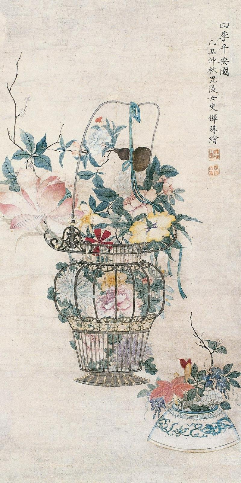 A painting by Yun Zhu中文（台灣）: 惲珠的《四季平安圖》